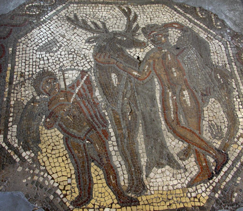 Mosaic of Cyparissus with his beloved stag, from High Cross Street, Leicester, discovered in the 1670s, now in the Jewry Wall museum.